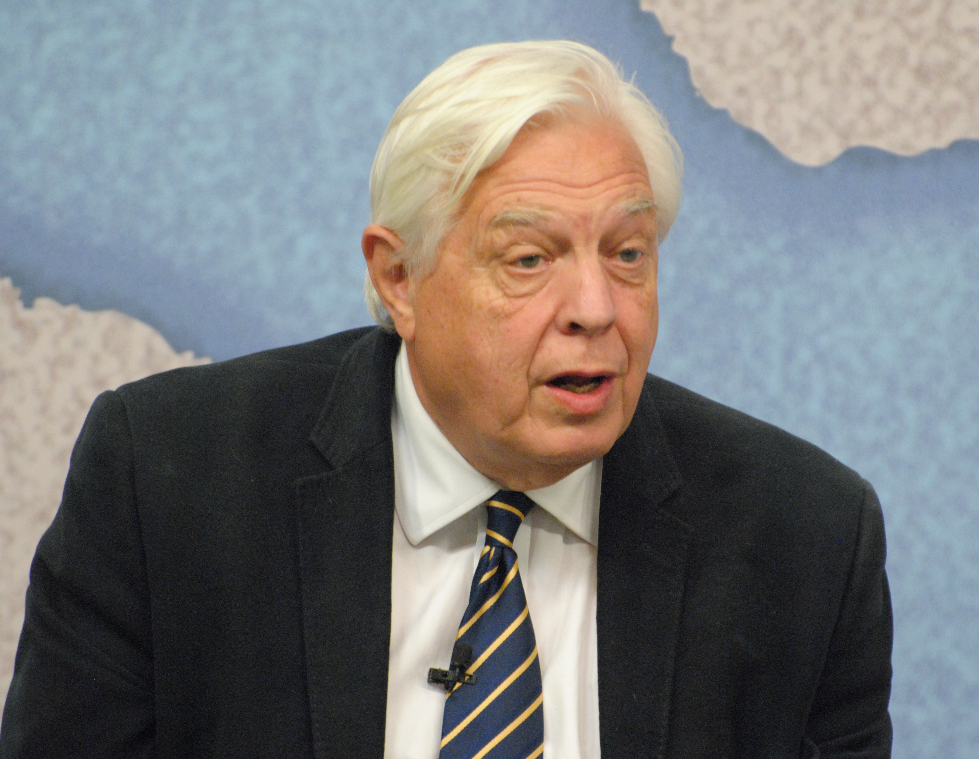 Growth, Development and Environmental Economics in Asia, 22 April 2015, cht.hm/1JfPn4k